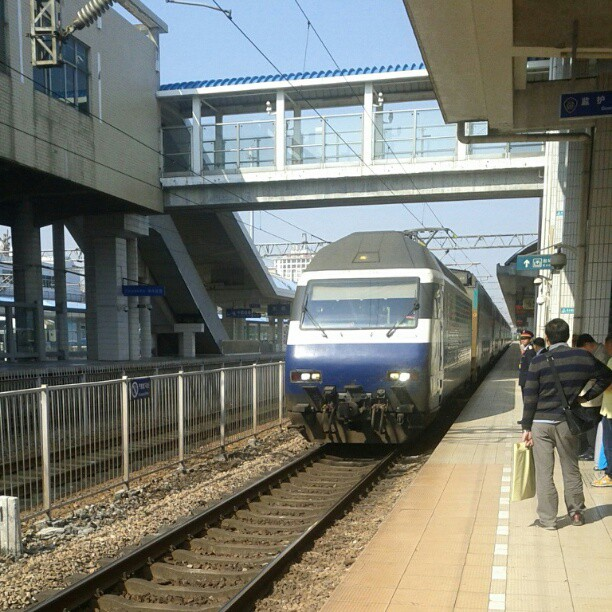 Perfect photo of #ktt in perfect daylight!